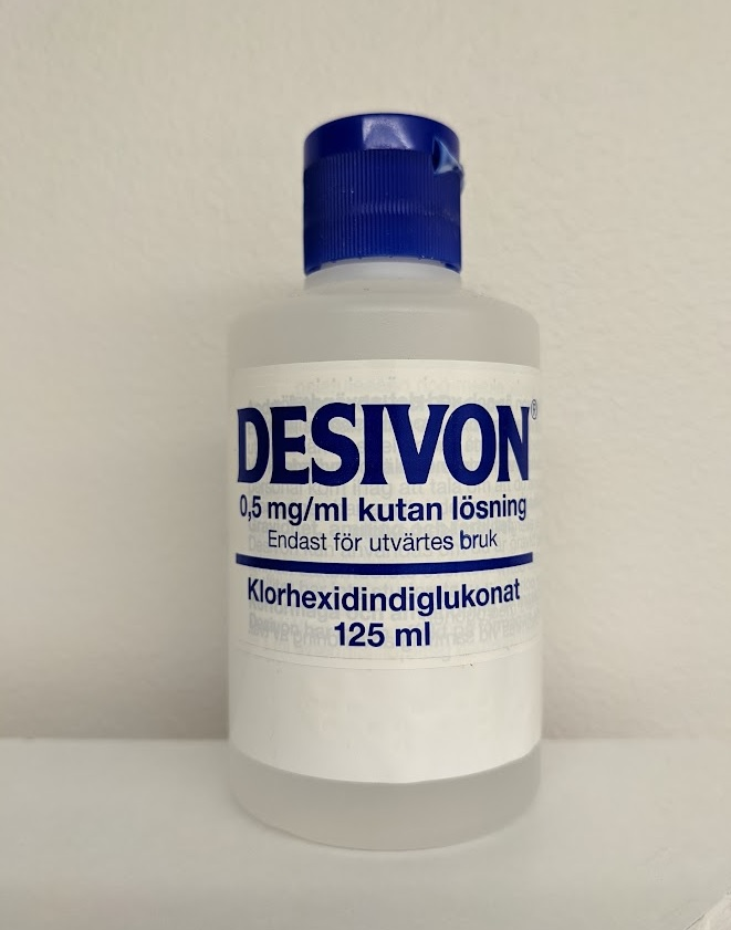 Chlorhexidine under the swedish brand Desivon.